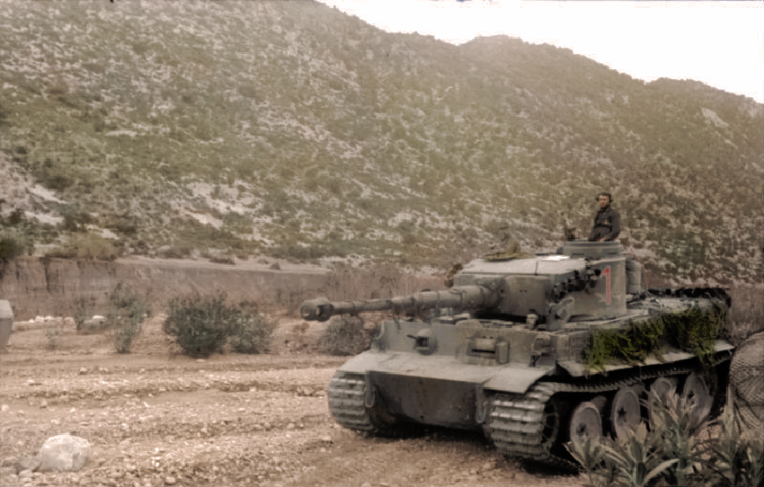 Panzer VI "Tiger I" from the Schwere Panzer-Abteilung 504 unit in Tunisia, most likely during the Battle of Kasserine Pass, with Erwin Rommel on command. The Battle of Kasserine Pass took place during Tunisia Campaign in the Atlas Mountains, west central Tunisia. The Axis forces, led by Generalfeldmarschall Erwin Rommel, were primarily from the Afrika Korps Assault Group, elements of the Italian Centauro Armoured Division and two Panzer divisions detached from the 5th Panzer Army, while the Allied forces consisted of the U.S. II Corps (Major General Lloyd Fredendall), the British 6th Armoured Division (Major-General Charles Keightley) and other parts of the First Army (Lieutenant-General Kenneth Anderson). It was the first major engagement between American and Axis forces in World War II in Africa.